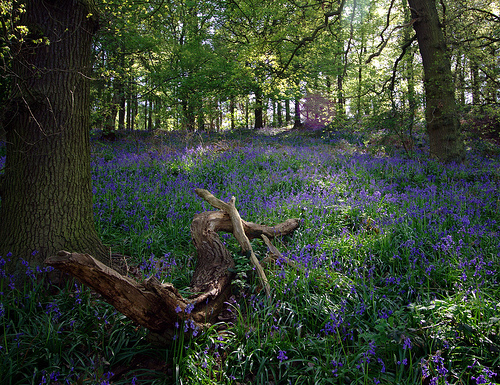 A view of Jubilee Wood south of Loughborough in Leicestershire. It is in the Beacon Hill, Hangingstone And Outwoods Site of Special Scientific Interest.